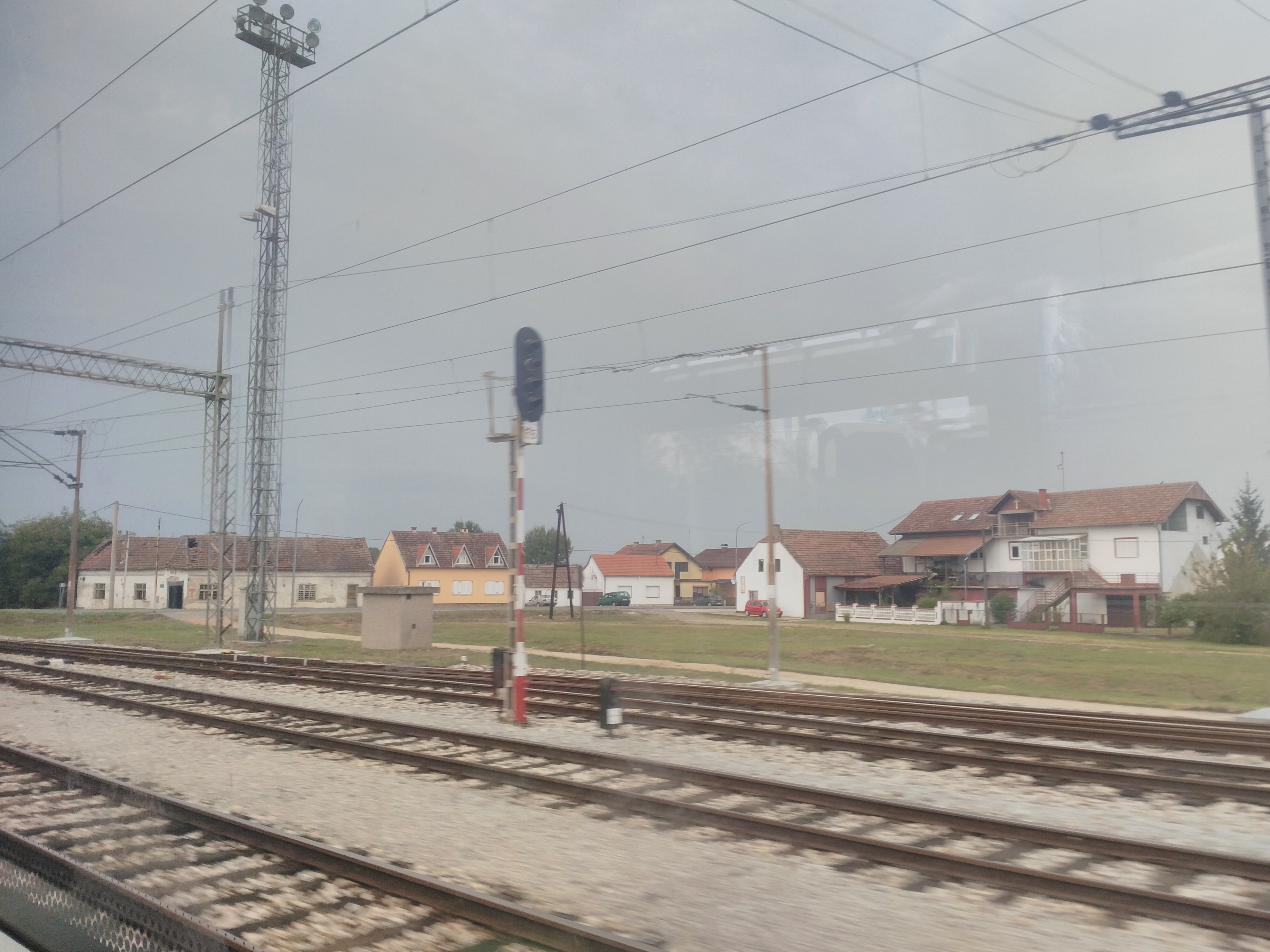 Strizivojna Vrpolje train station.